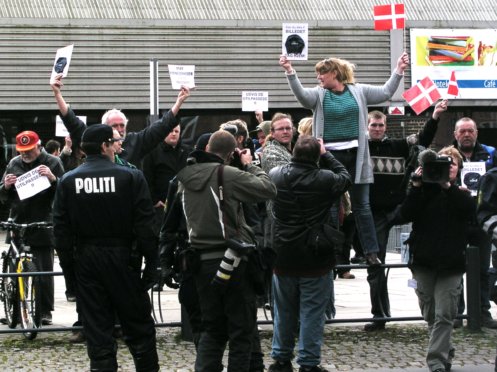 Stop Islamisation of Denmark demonstration in Aalborg, Denmark.